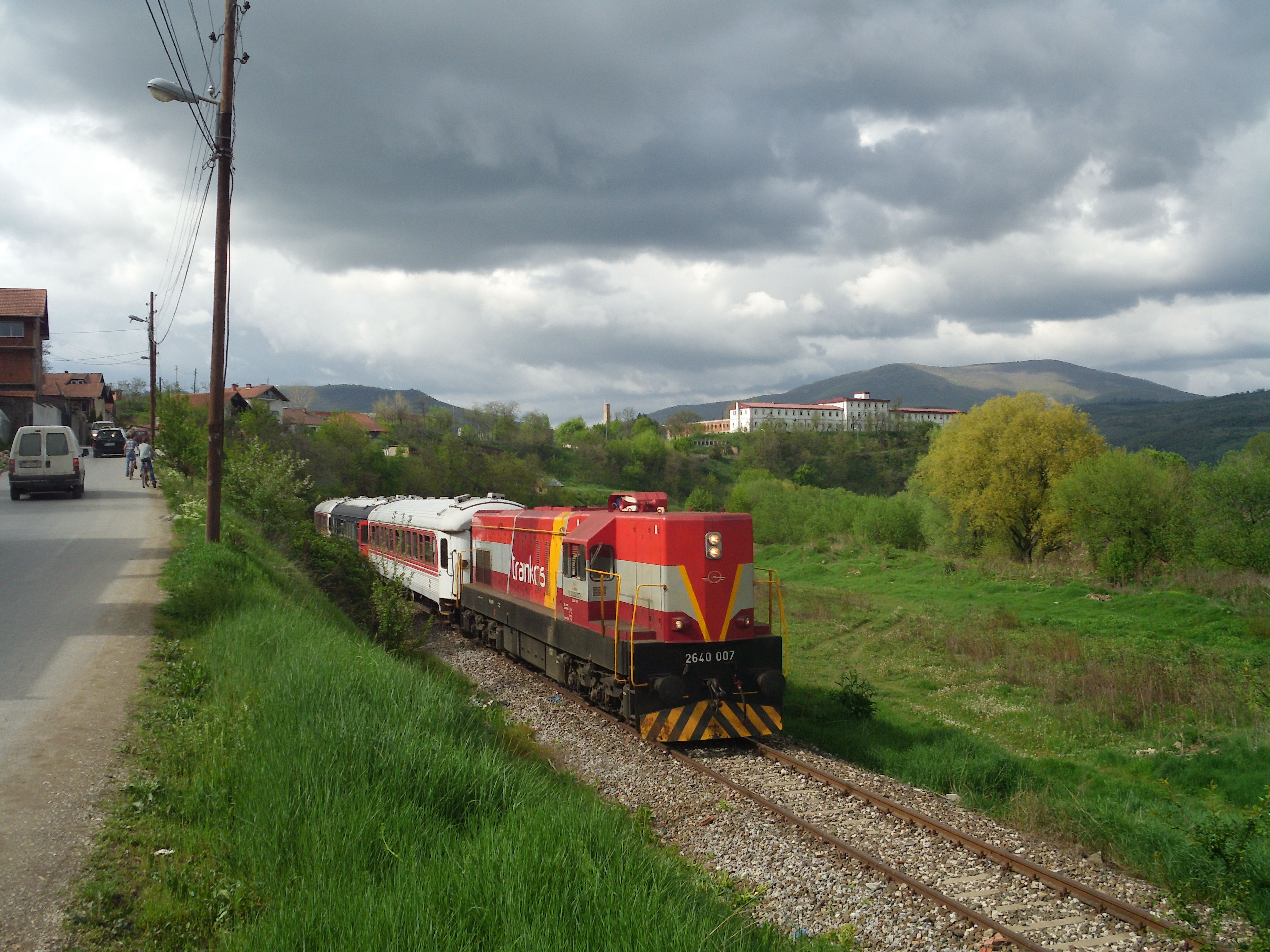 A tourist train from Fushë Kosovë in a southern suburb of Mitrovica in Kosovo.